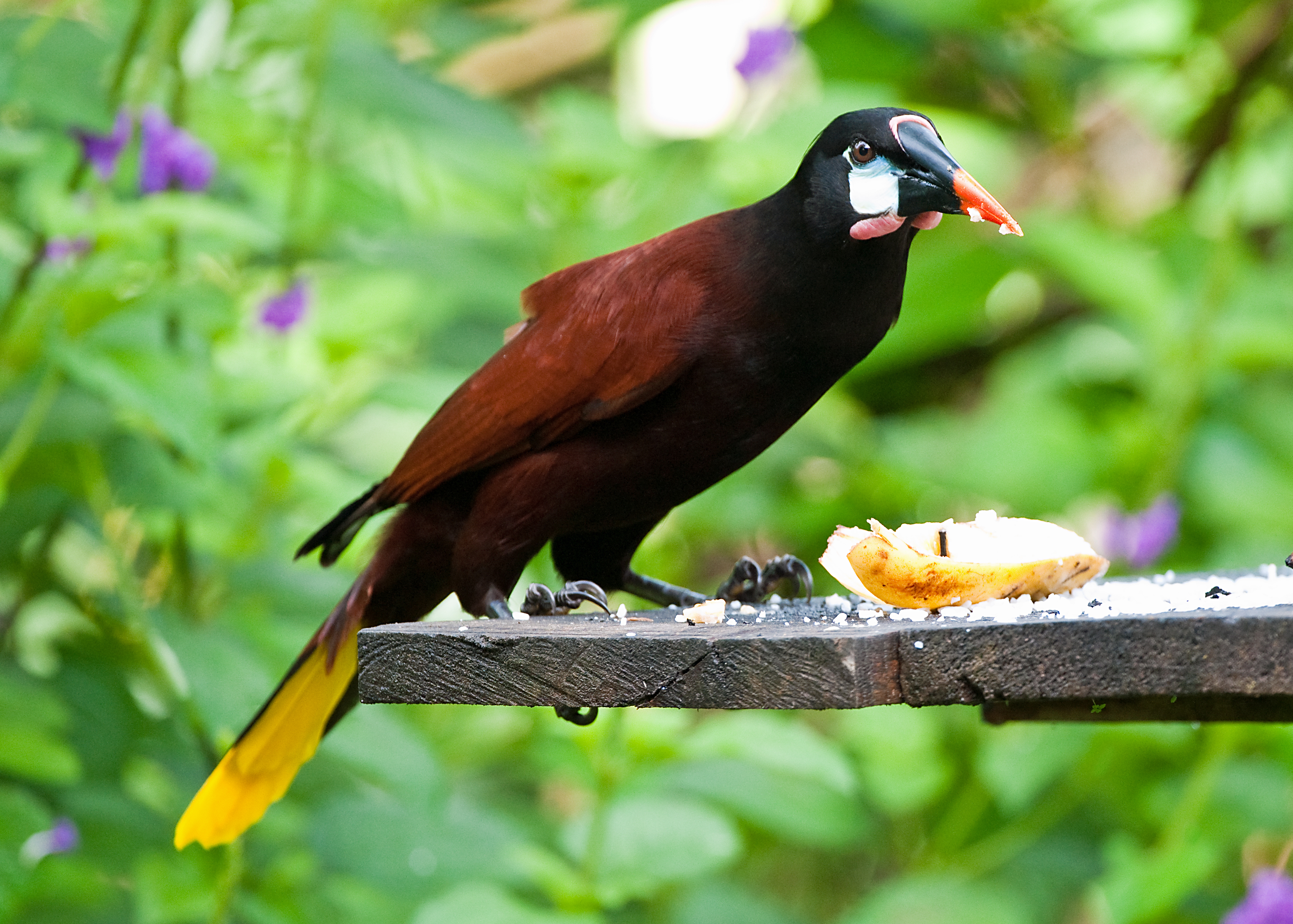 A male Montezuma Oropendola near Rancho Naturalista, Cordillera de Talamanca, Costa Rica.